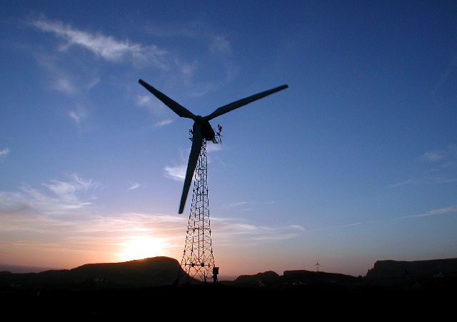 100kW Aerogenerator, Fair Isle. Looking towards Malcolm's Head past the larger of the two wind turbines on Fair Isle. The smaller 60kW machine can be seen just to the right in the distance.